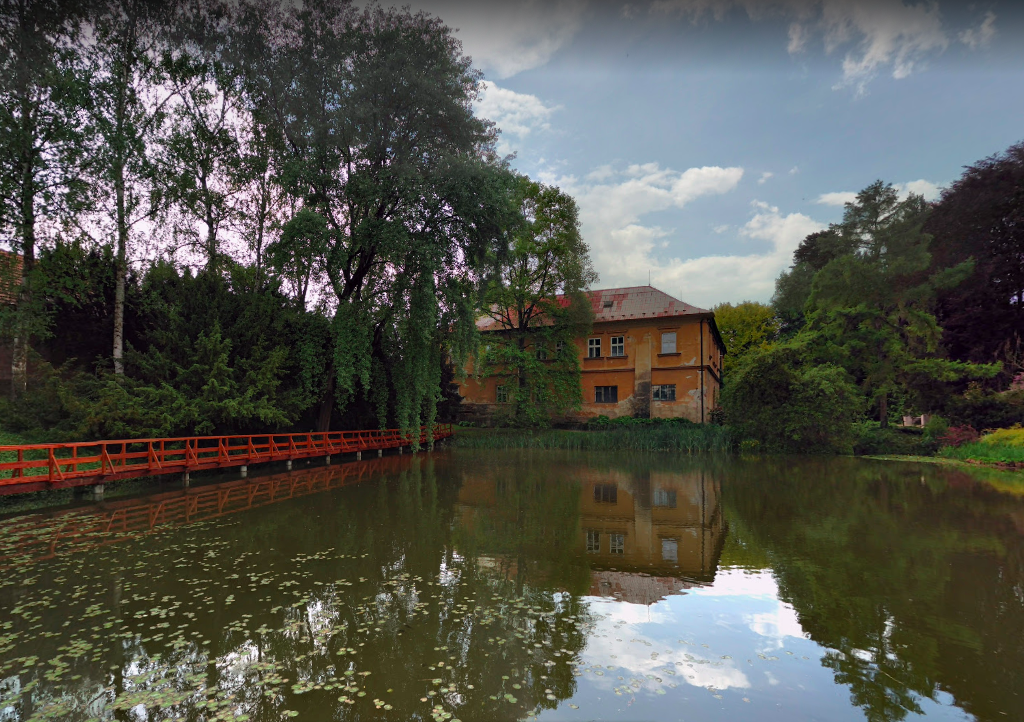 Arboretum